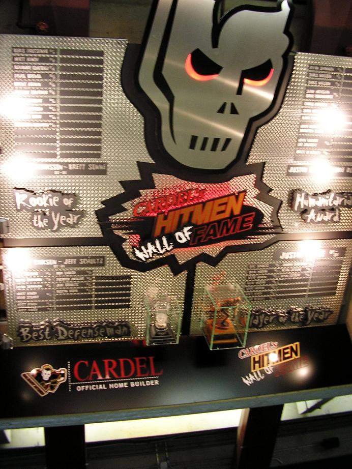 A large monument hanging from the walls of the Pengrowth Saddledome